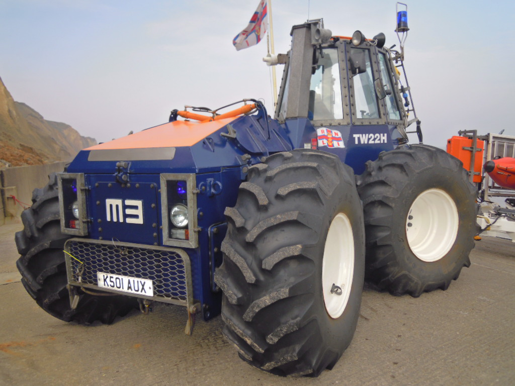 The Talus MB-4H amphibious launch tractor with the operation No. TW22H which is stationed at Sheringham Lifeboat Station in Norfolk, United Kingdom